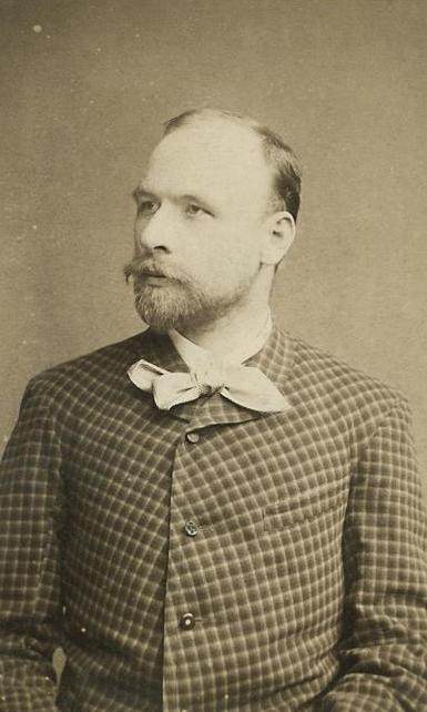 Photograph of F. X. Svoboda (1860-1943), Czech poet